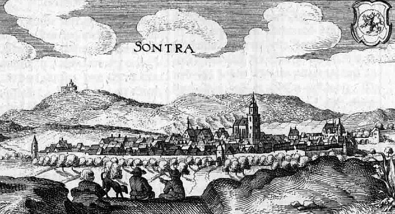 This is a scan of the historical document: Title: Sontra - Topographia Hassiae language: german